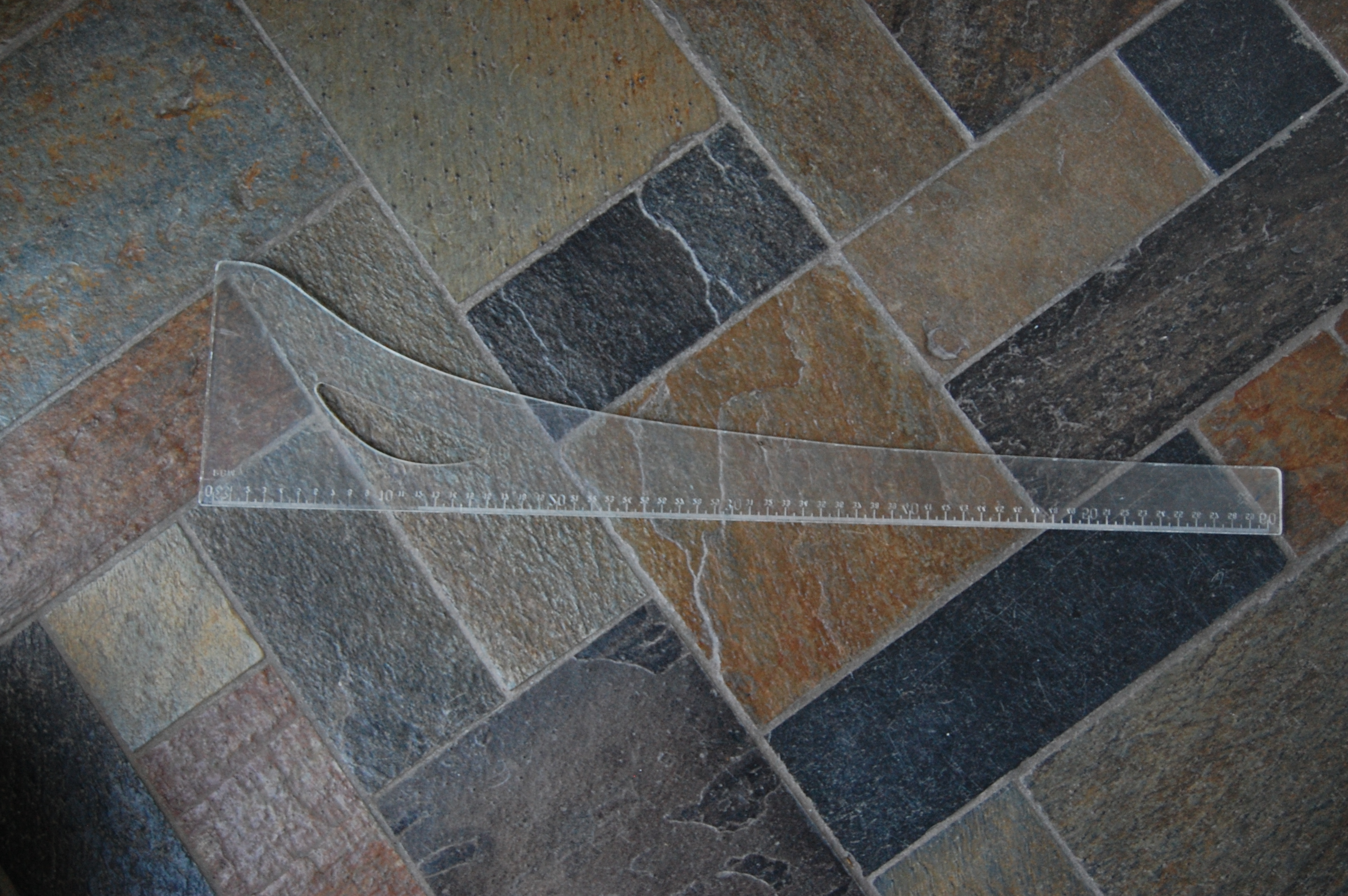 Drawing ruler for pattern drawing